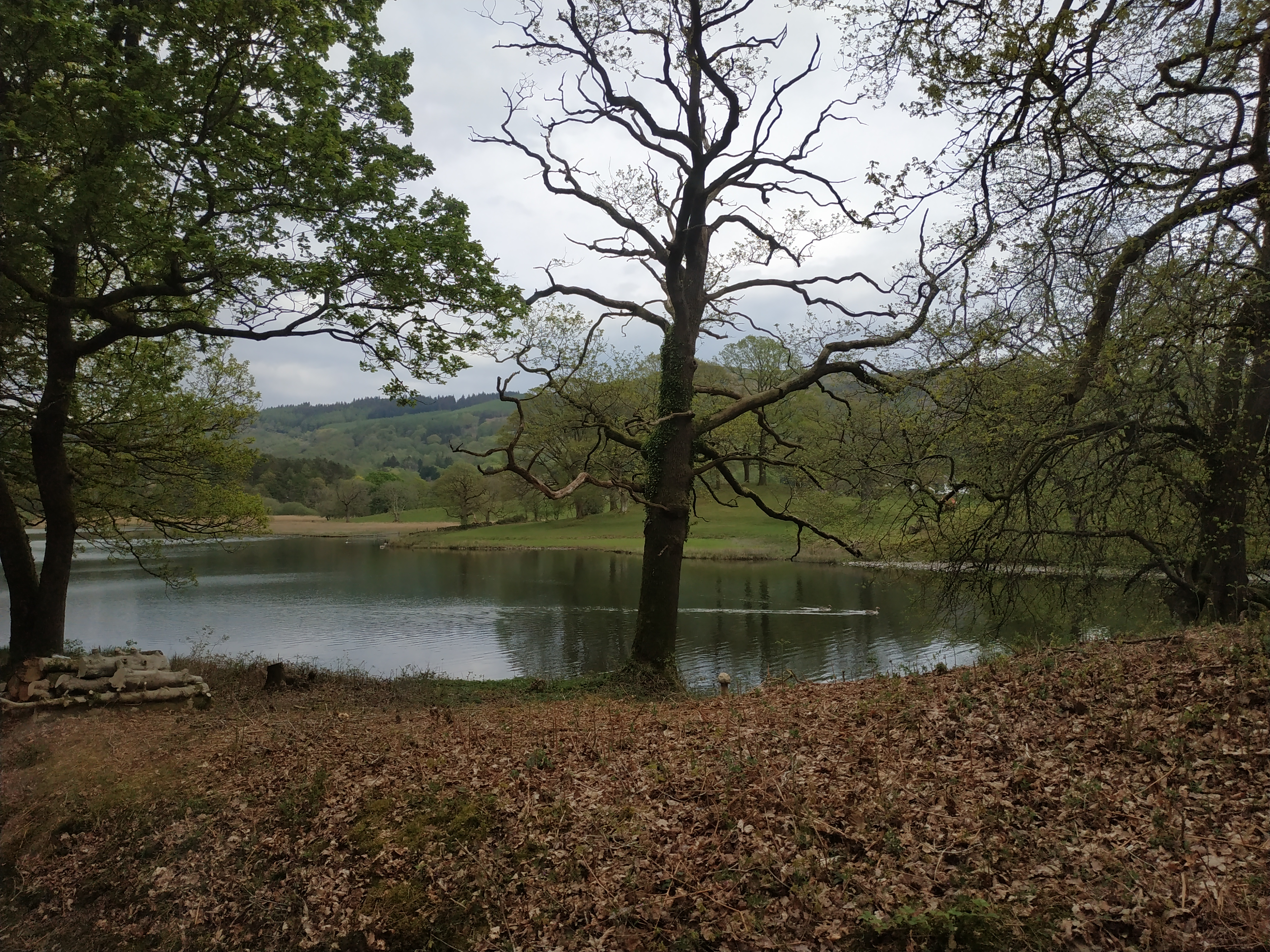 View from the train